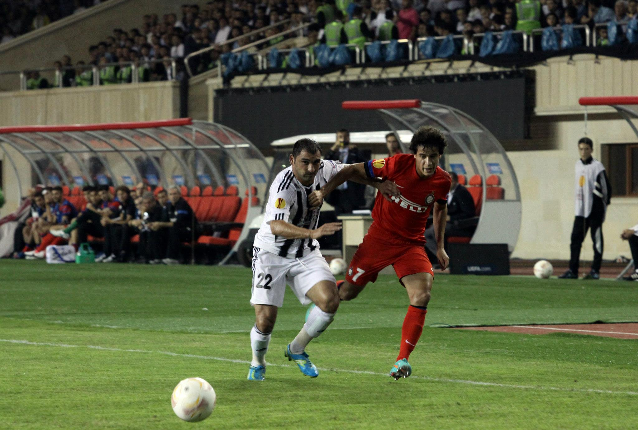 UEFA Europa League 2012-10-04 Neftchi Baku-FC Internazionale Milano.